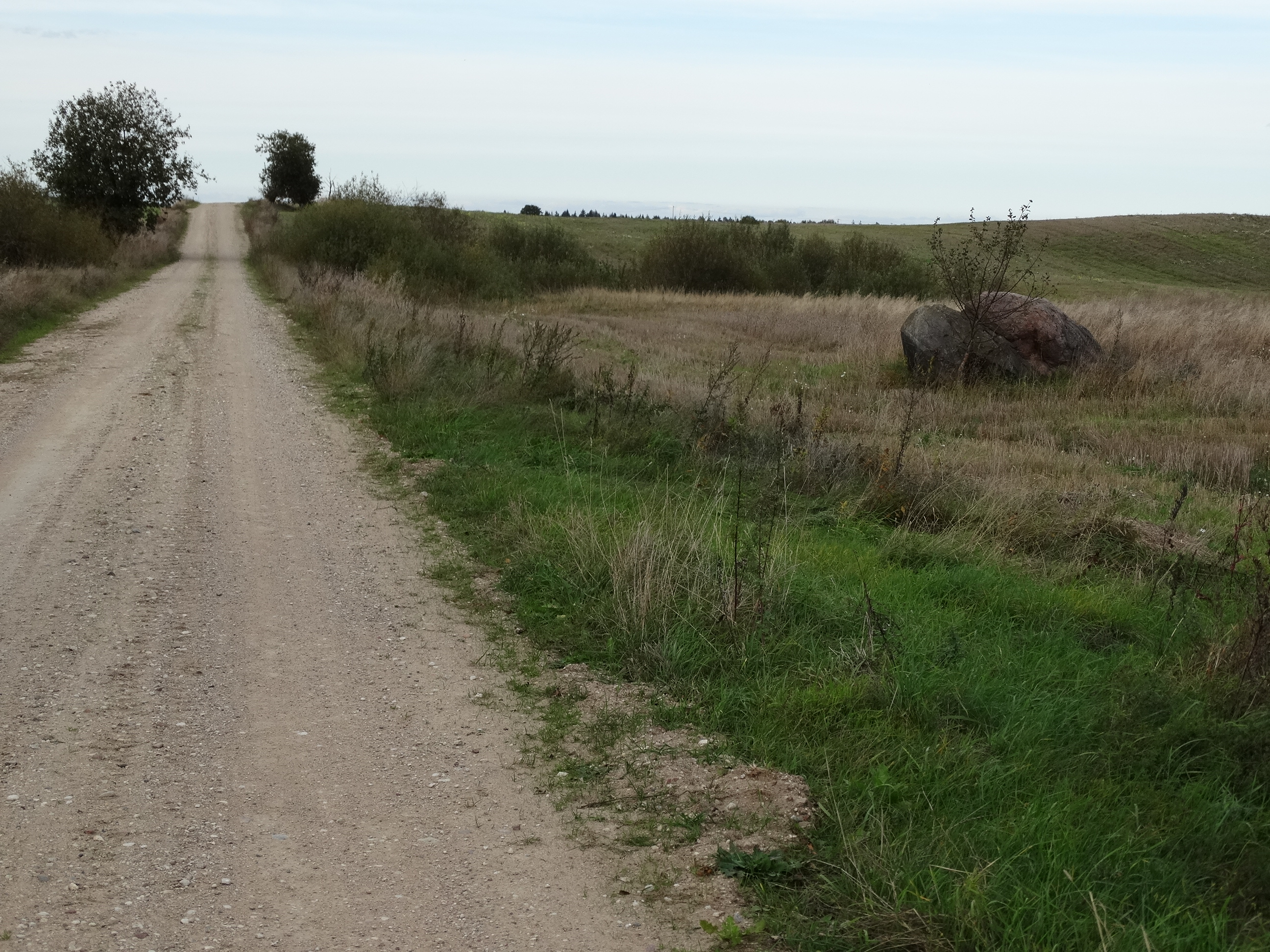 Sevelionys stone, Kaišiadorys District, Lithuania